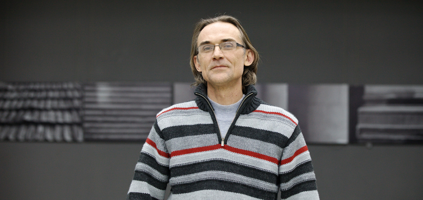 Aniempadystau Michal 2012